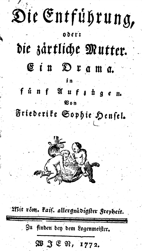 Cover of Die Entführung, oder Die zärtliche Mutter, play in five acts, 1772, by Friederike Sophie Hensel (later married Seyler)